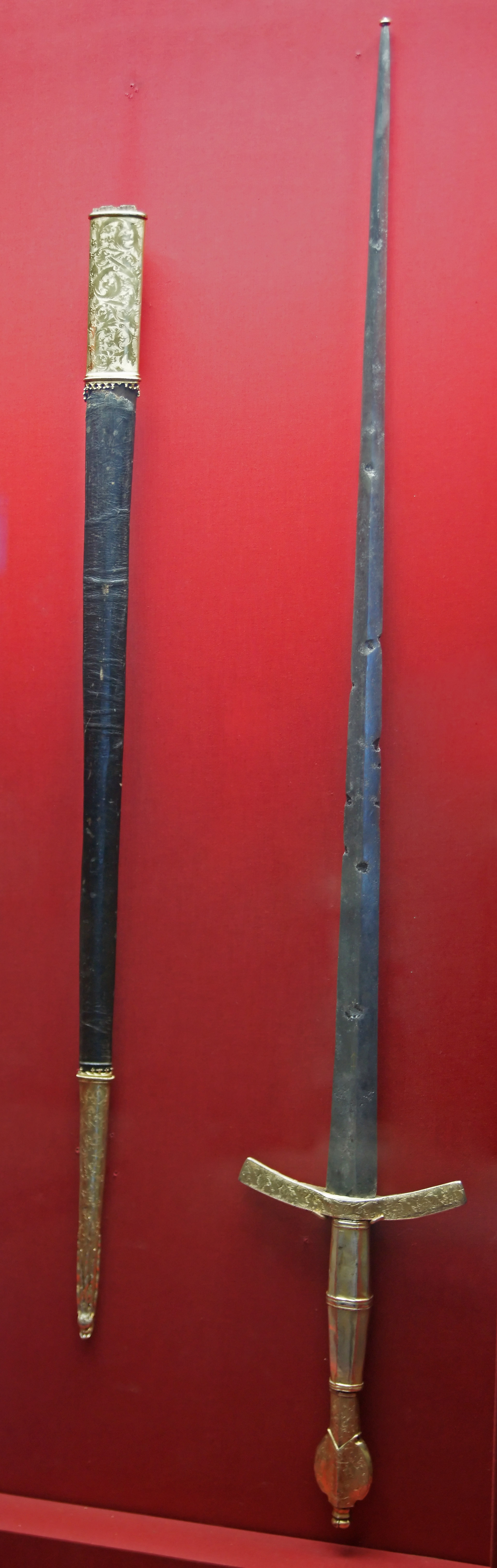 Ceremonial sword of the Rector of the Republic of Ragusa (Dubrovnik). Gift of King Matthias I of Hungary and Croatia to the city, 1466.